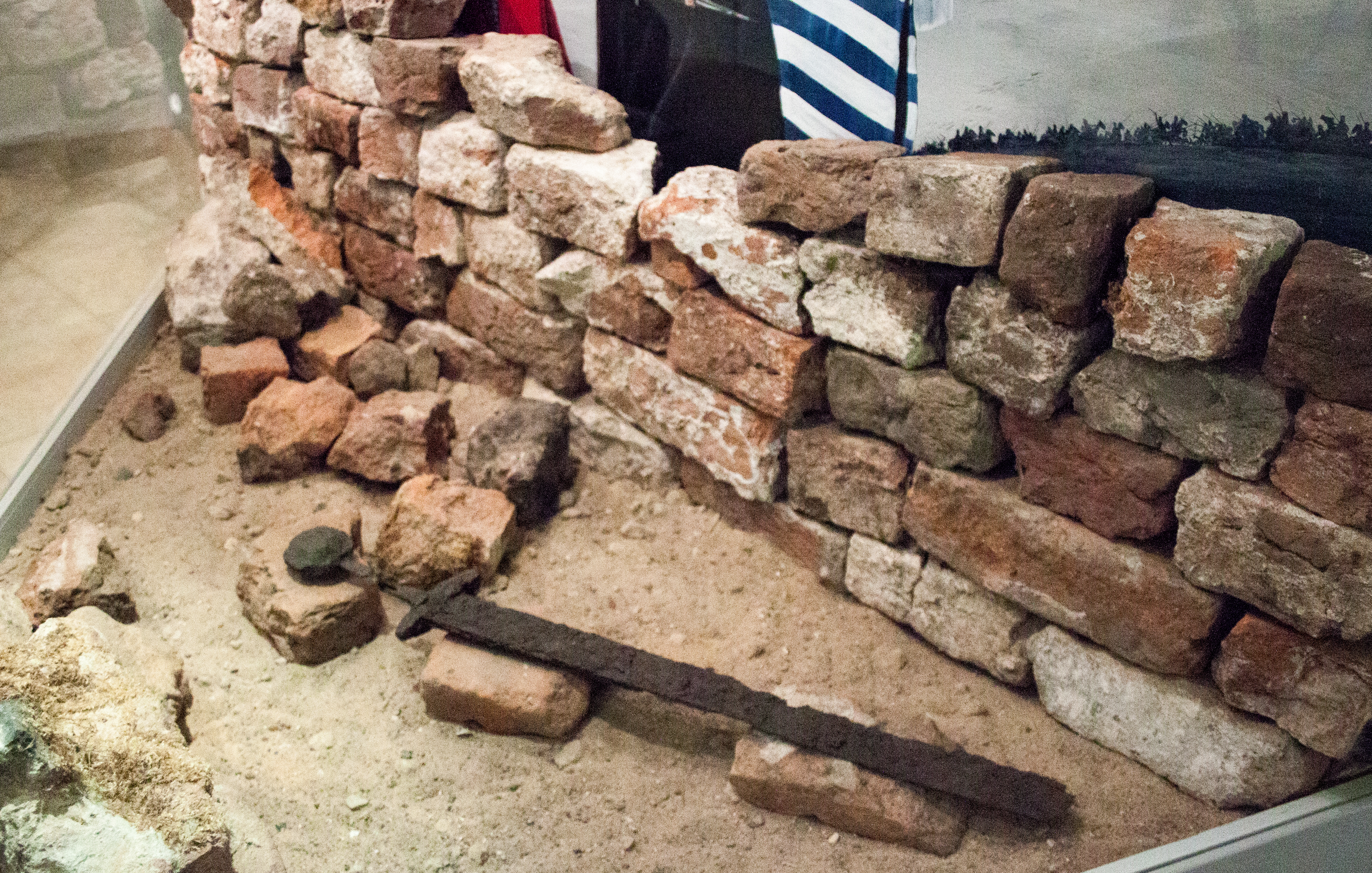 Sword found in the Danevirke